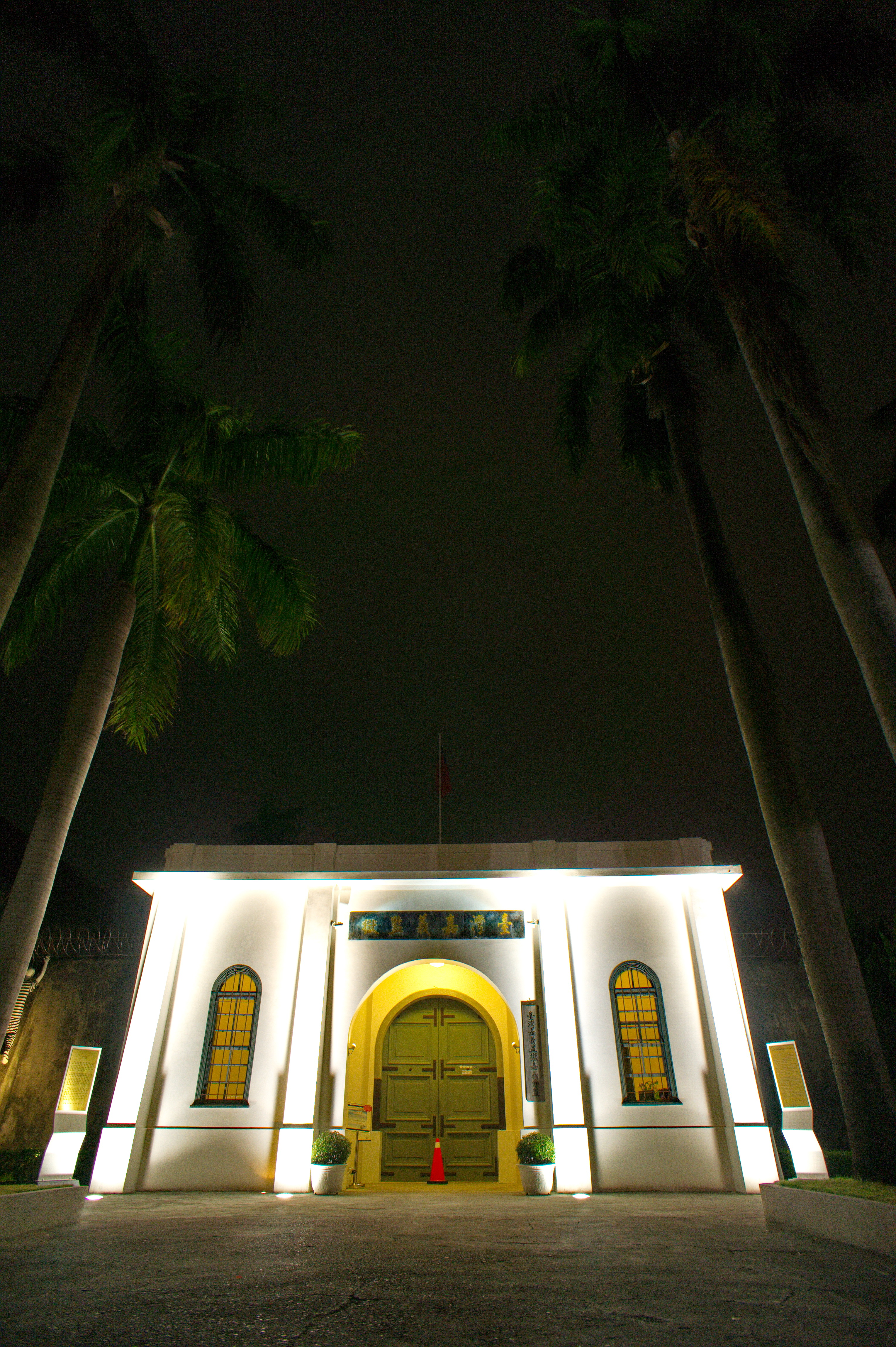 The Old Chiayi Prison, Chiayi City, Taiwan.